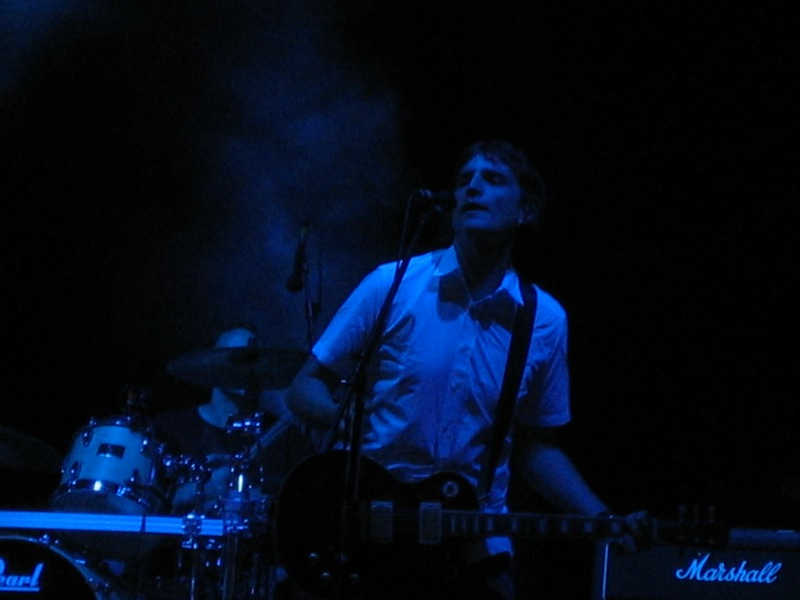 Starsailor @ Summercase BCN 06